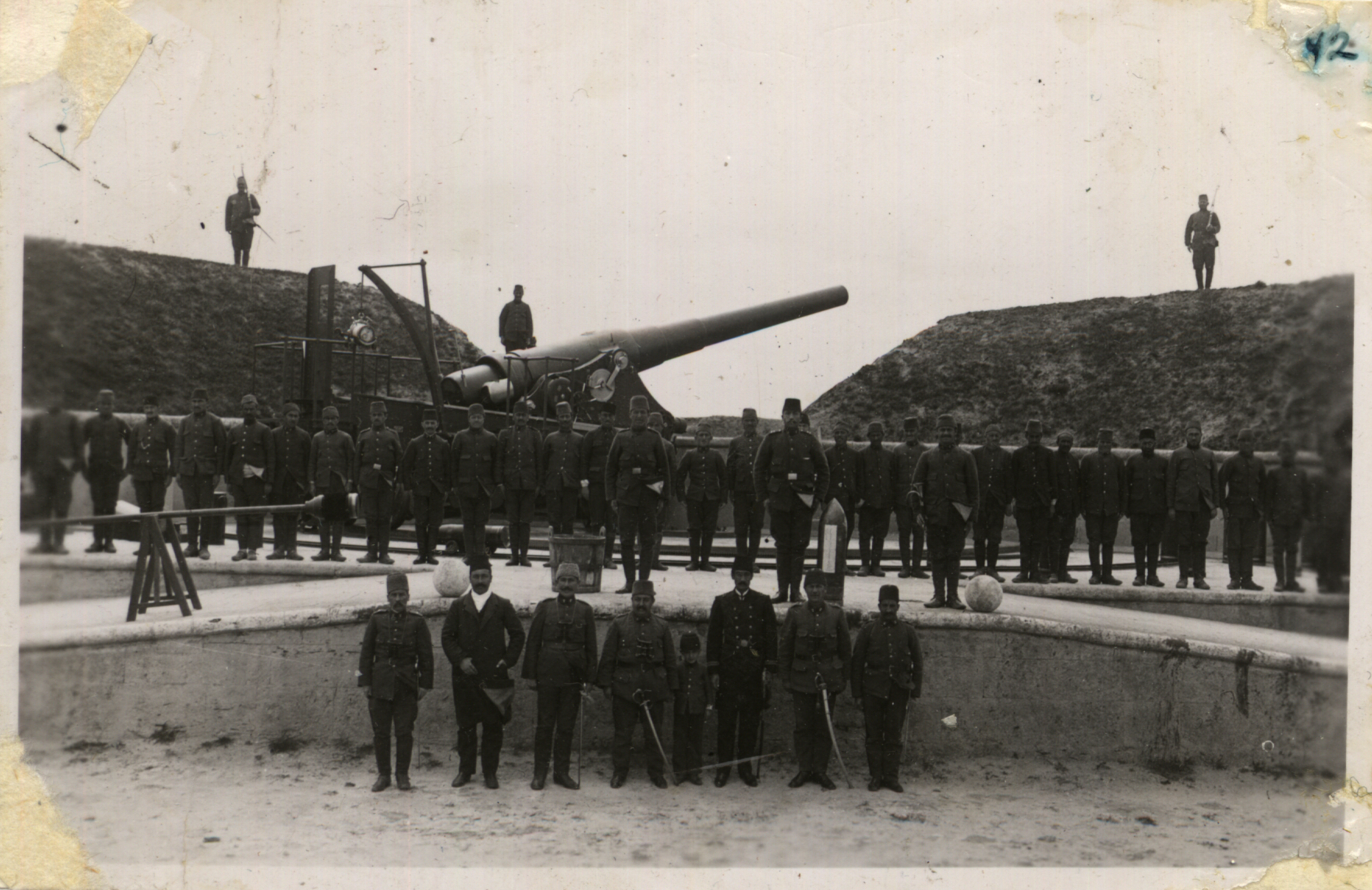 A redoubt of the Dardanelles Fortified Area. The weapon is a German-made 24 cm K L/35 on a coast defense mount.